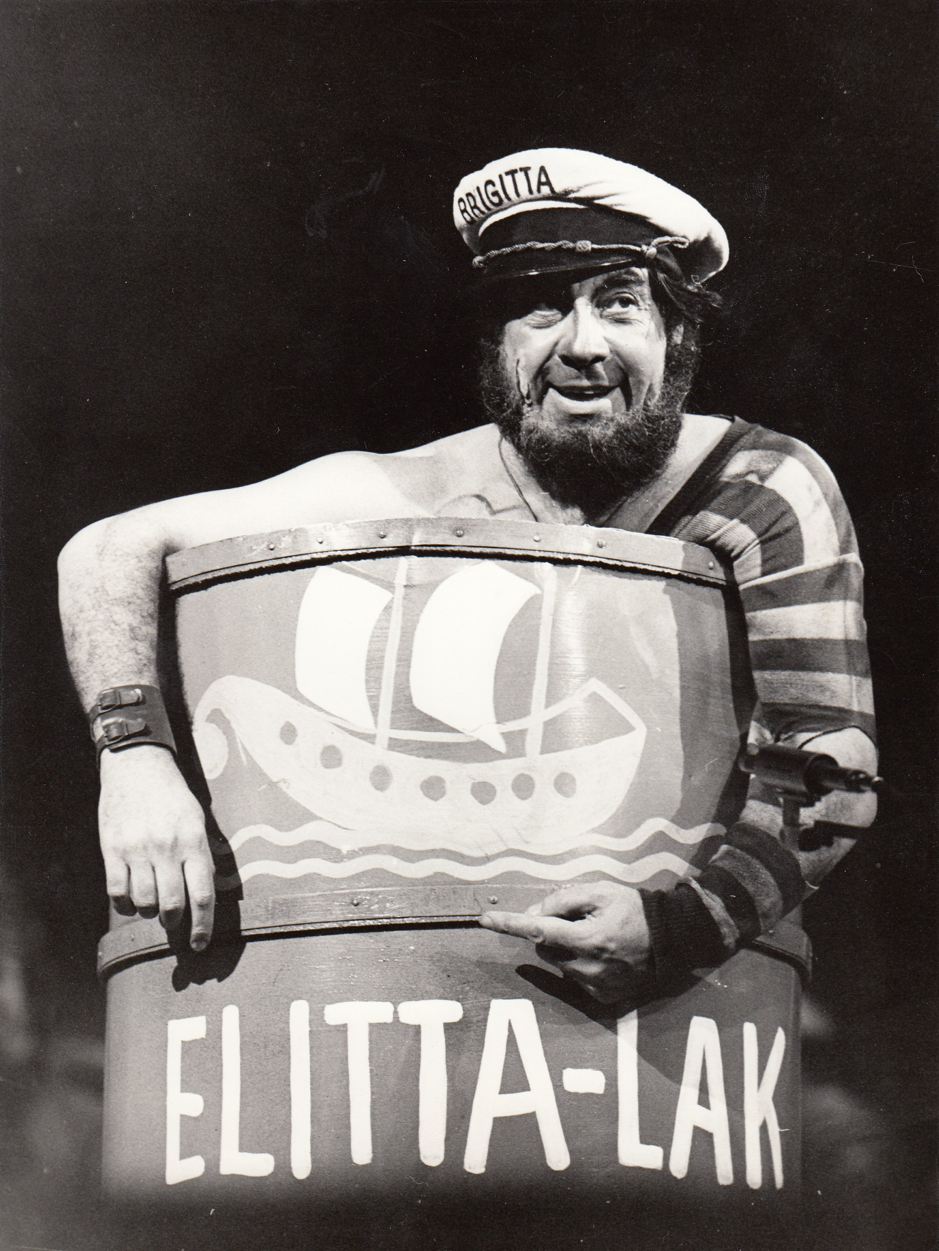 Mucsi Sándor az Ellopott futár című darabban